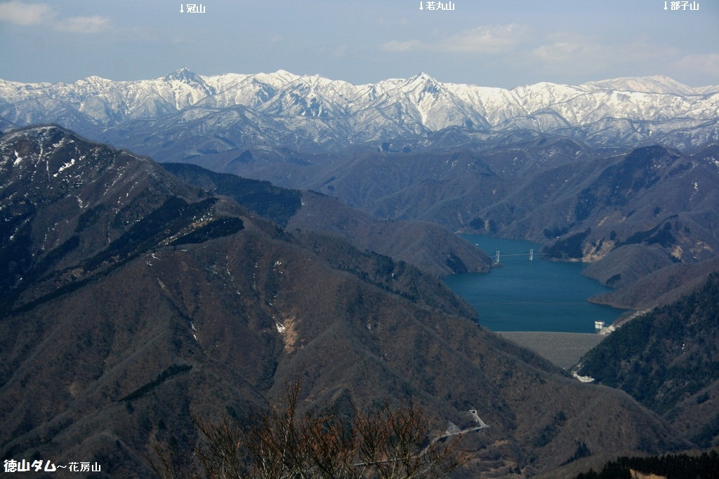 Tokuyama Dam and Mount Nōgōhaku from Mount Hanabusa in Ibigawa, Gifu prefecture, Japan.